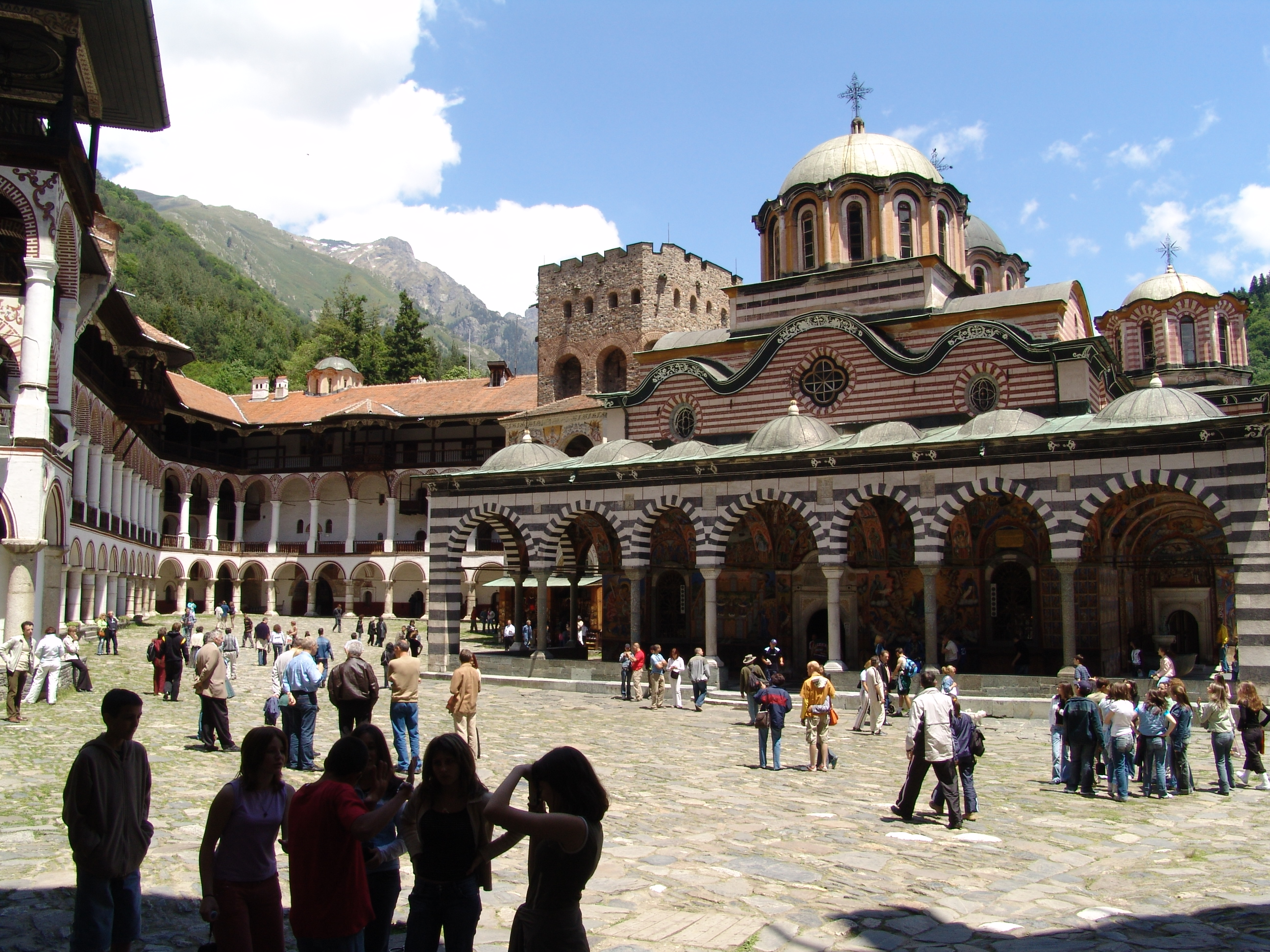 Rila Monastery, Bulgaria.